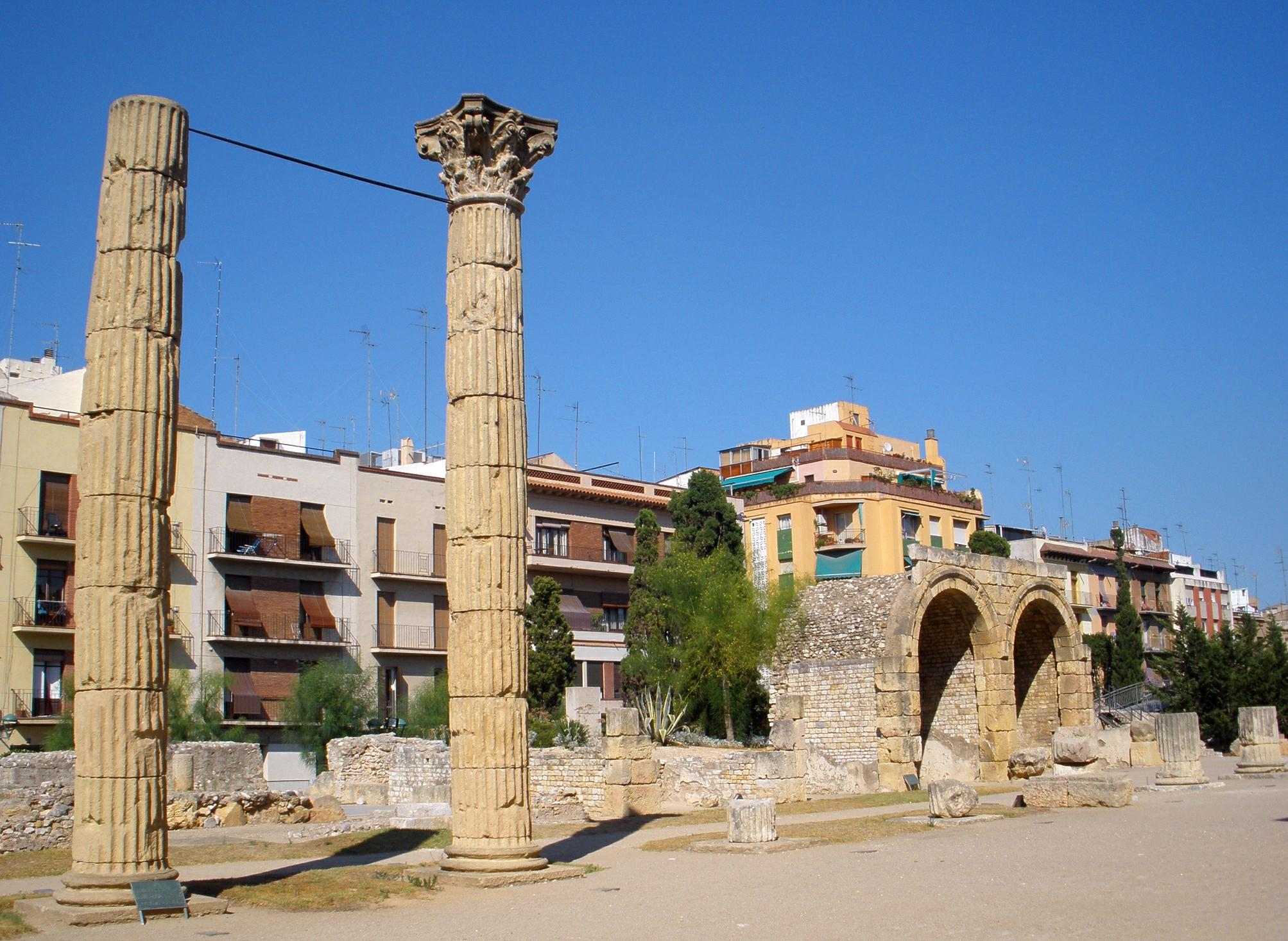 Foro colonial de Tarraco (Tarragona)